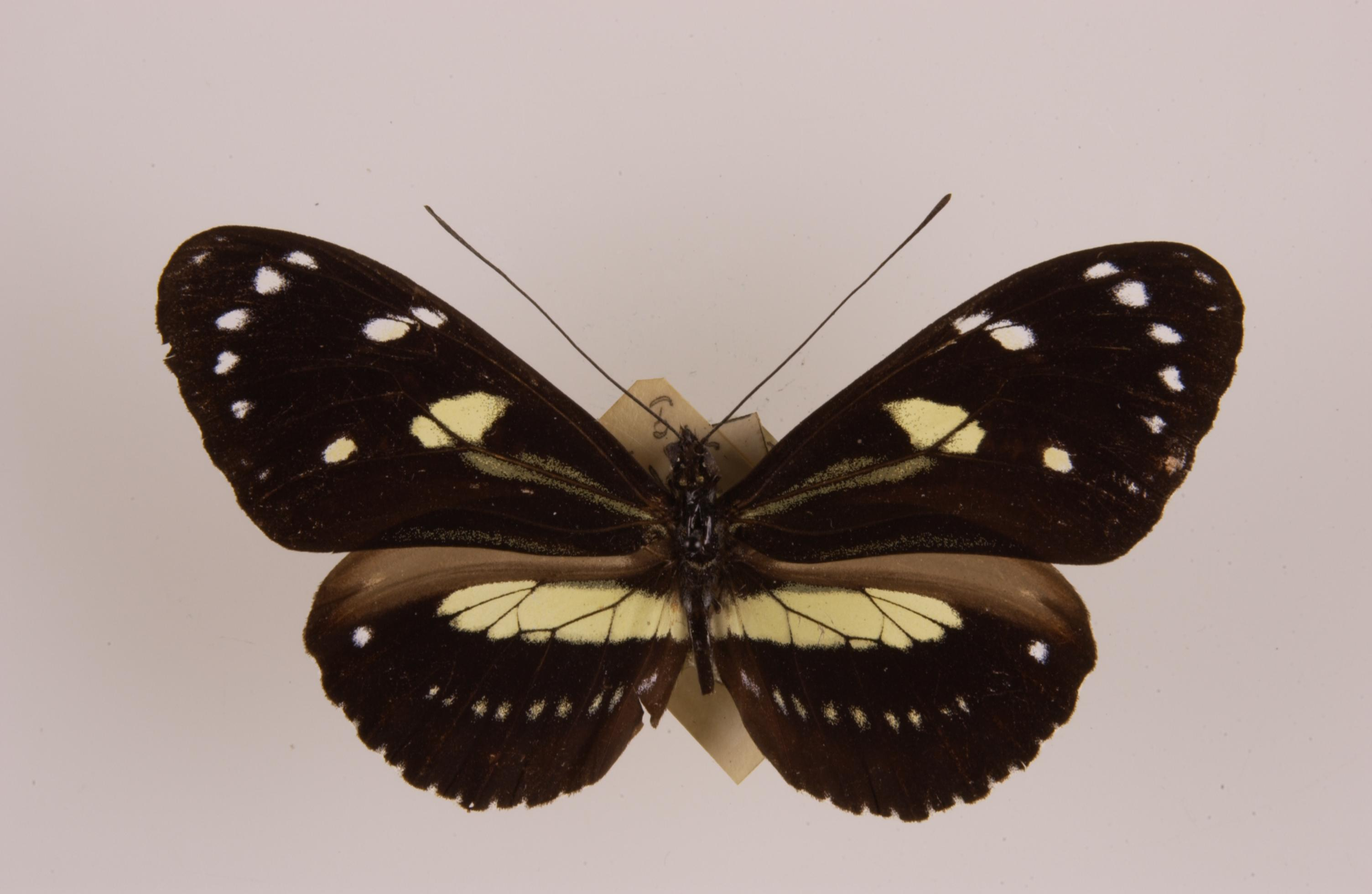 Heliconius athis